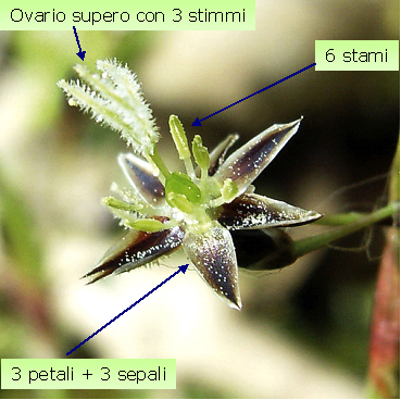 flower of Luzula pilosa (L.) Willd. (Hairy Wood-rush)